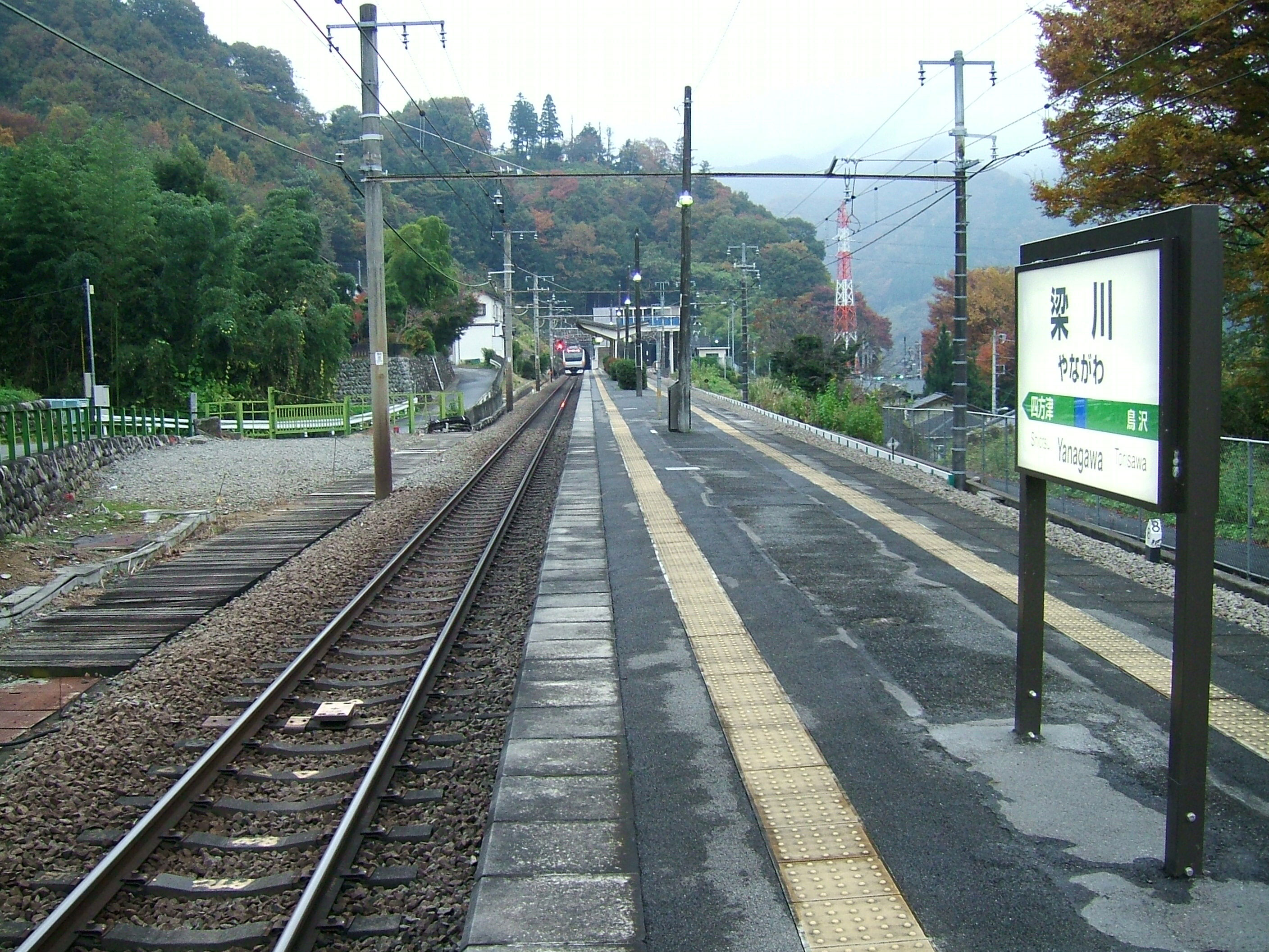 Yanagawa Station platform (East Japan Railway Chūō Main Line)